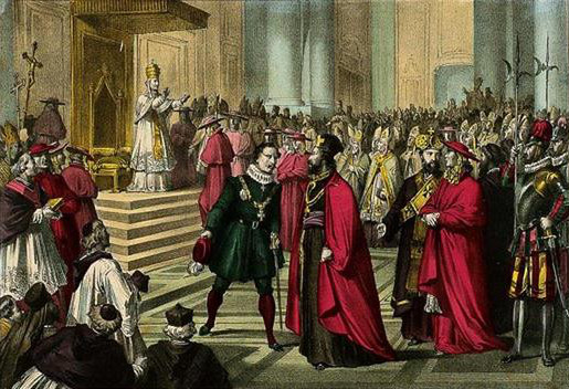 Cropped version of ROME 8 DECEMBRE 1896.jpg.